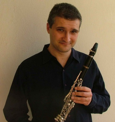 From the album "Partenope"